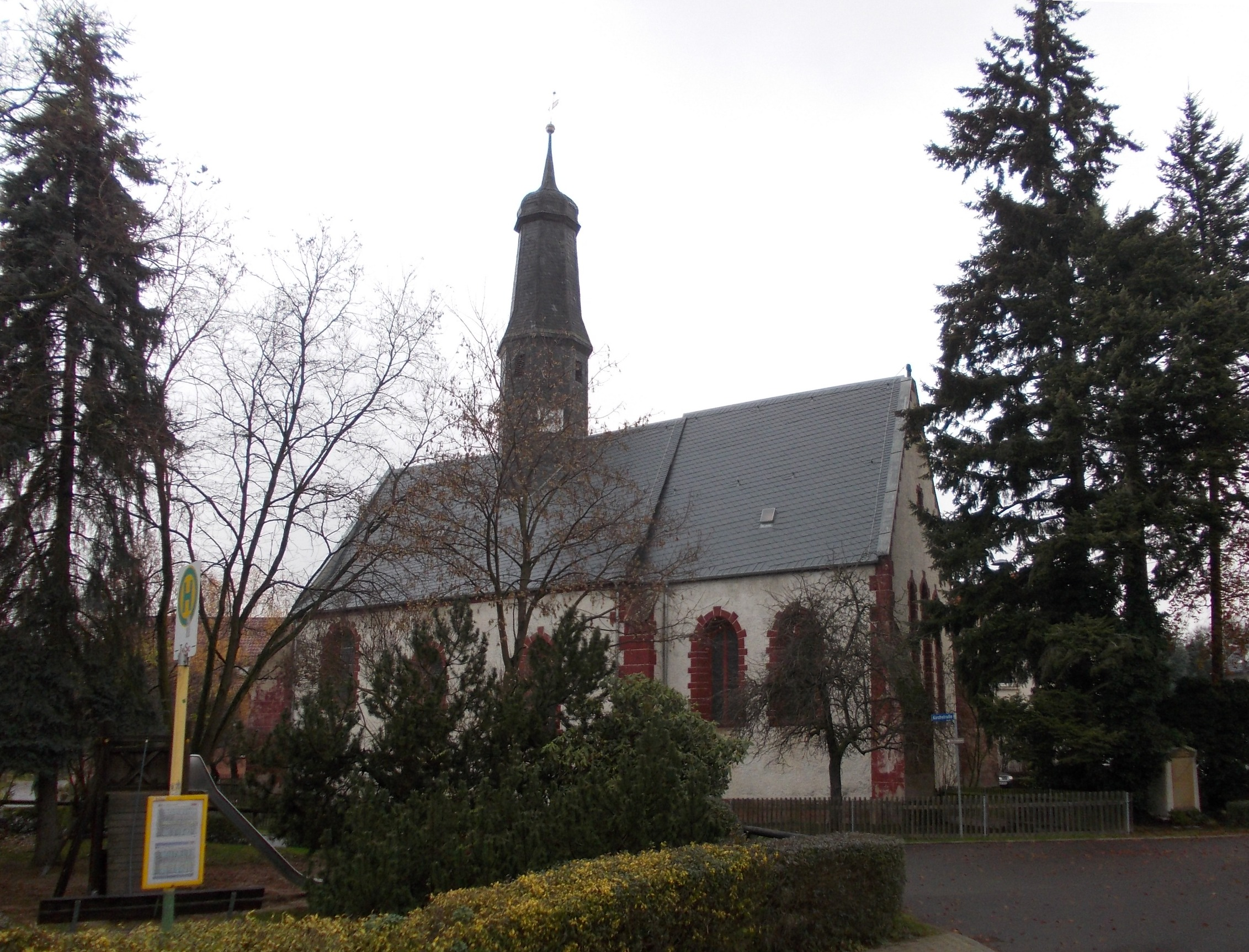 Nenkersdorf church (Frohburg, Leipzig district, Saxony)